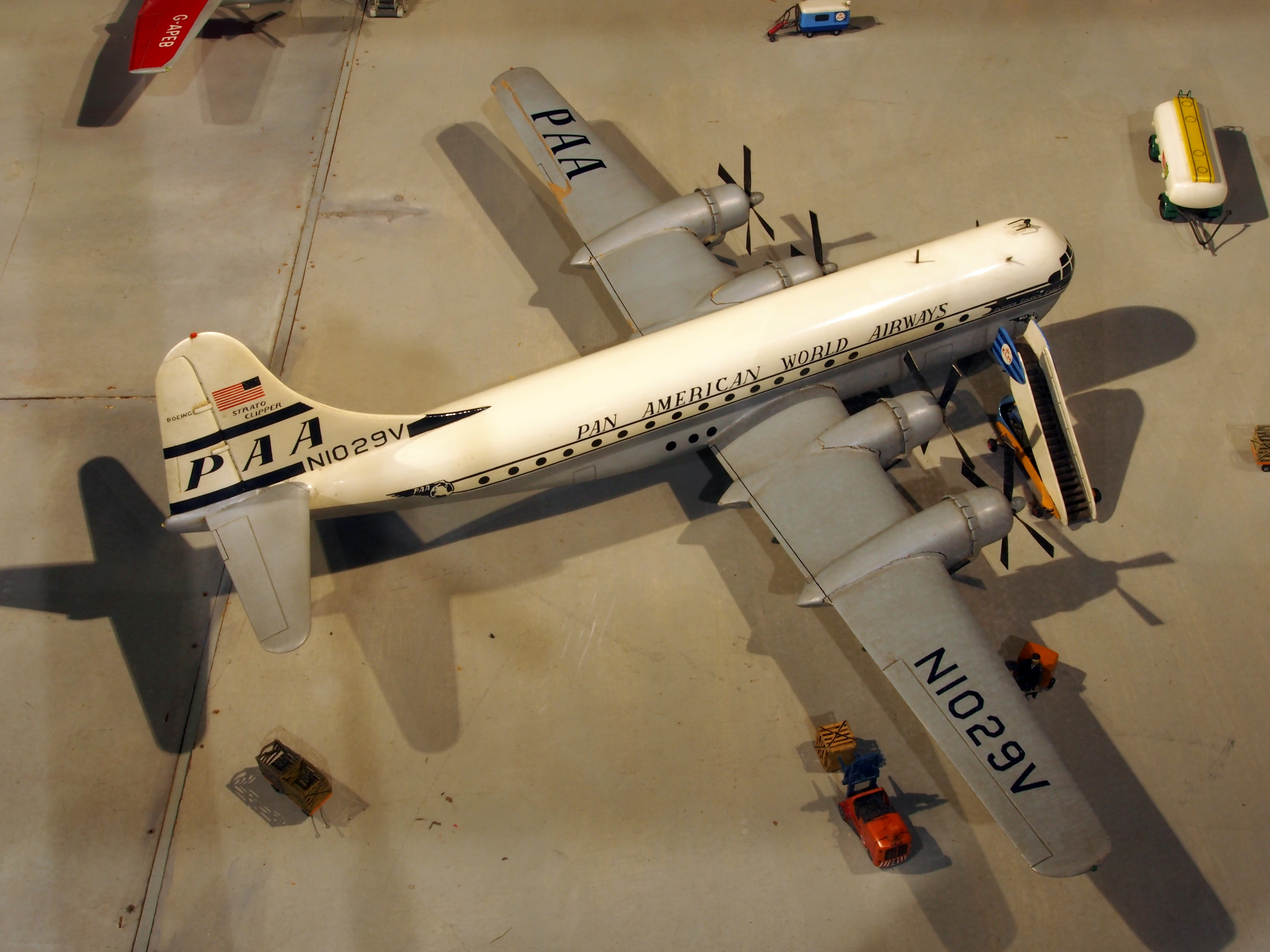 Schiphol 1960 models